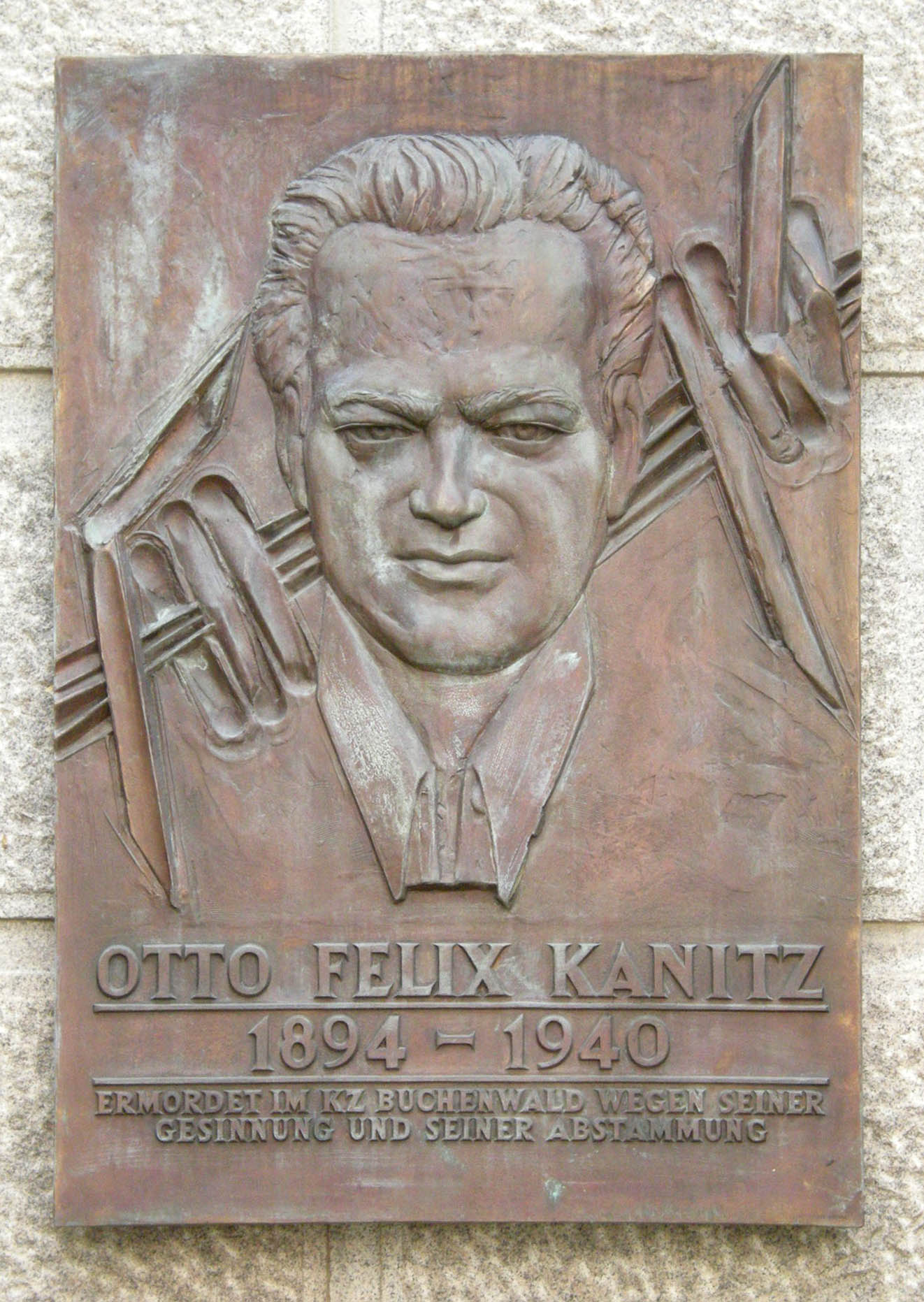 Otto Felix Kanitz memorial at the outside of the parliament building, Reichsratsstraße, Vienna, Austria. Kanitz was an Austrian socialist, educationist, journalist and member of Parliament. He is most renowned for having directing "Schönbrunn school" of Kinderfreunde movement from 1919-1924. He died at Buchenau concentration camp on march 29, 1940.